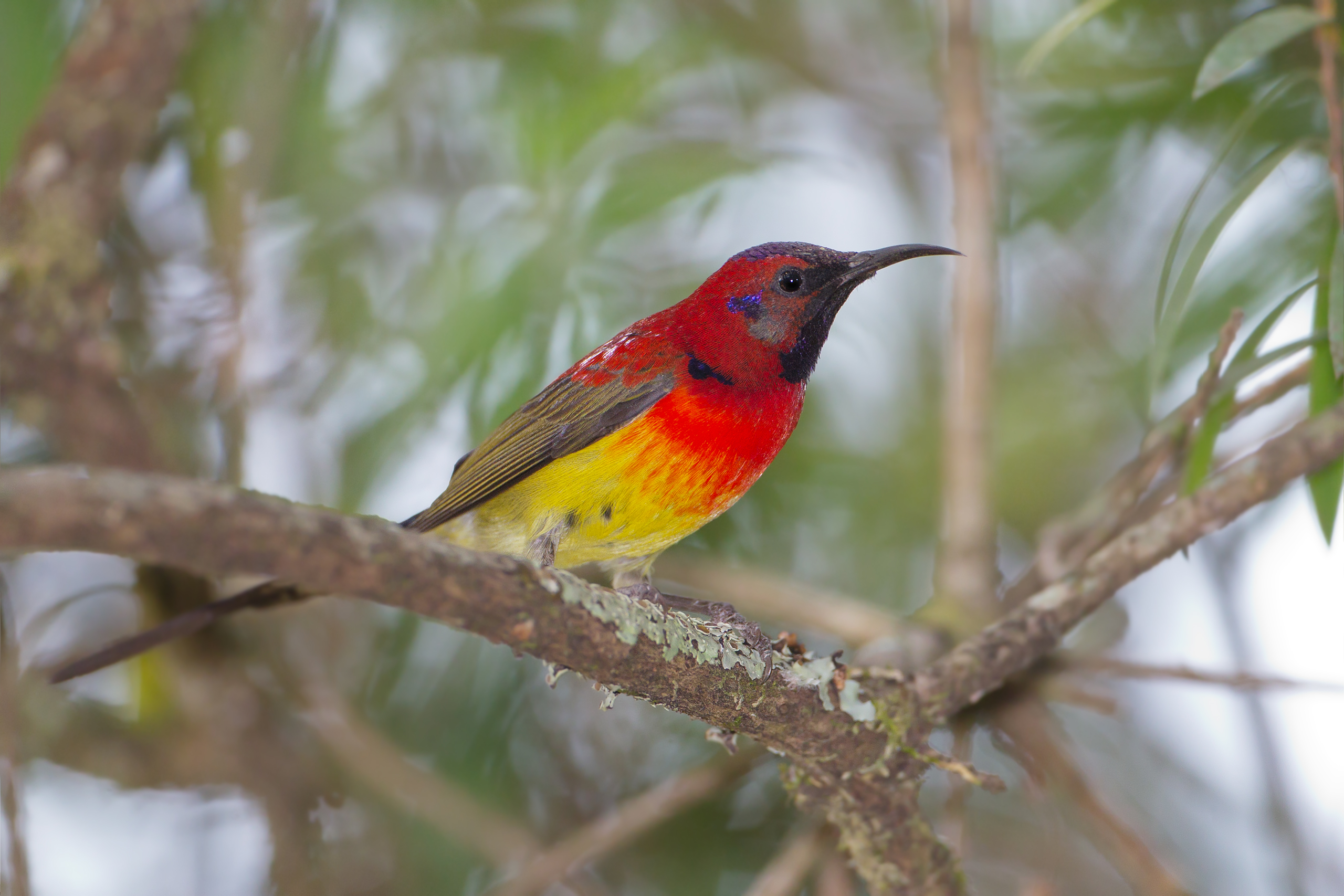 Mrs Gould's Sunbird (Aethopyga gouldiae), Royal Agricultural Station, Ang Khang, Chiang Mai, Thailand12.84447, 99.32426